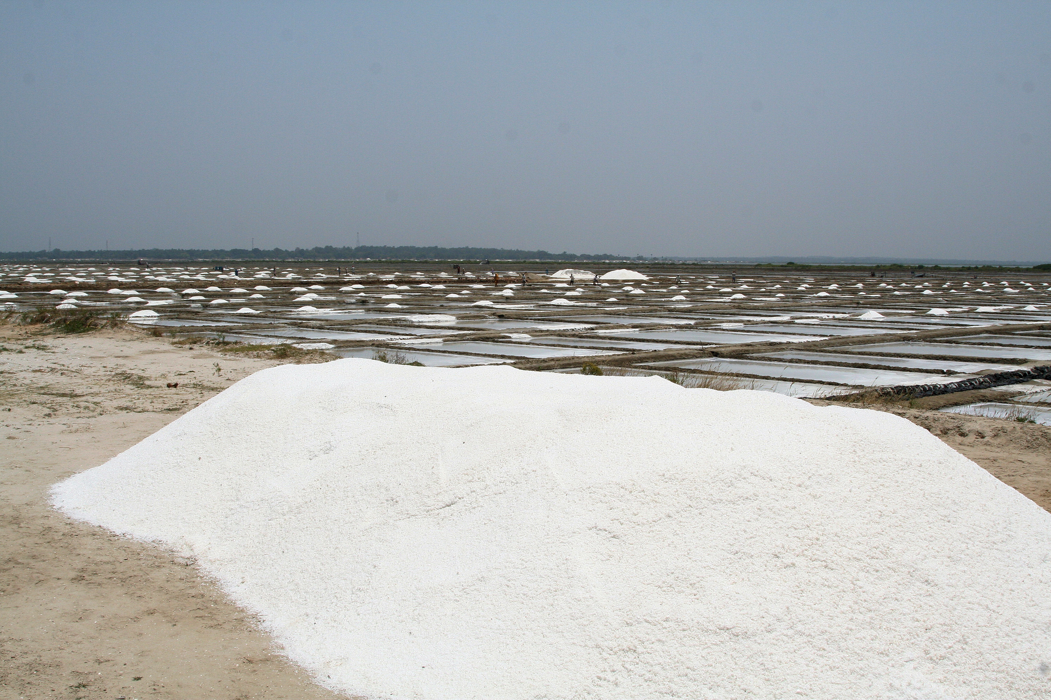 The salt works just north of Pondicherry, India.